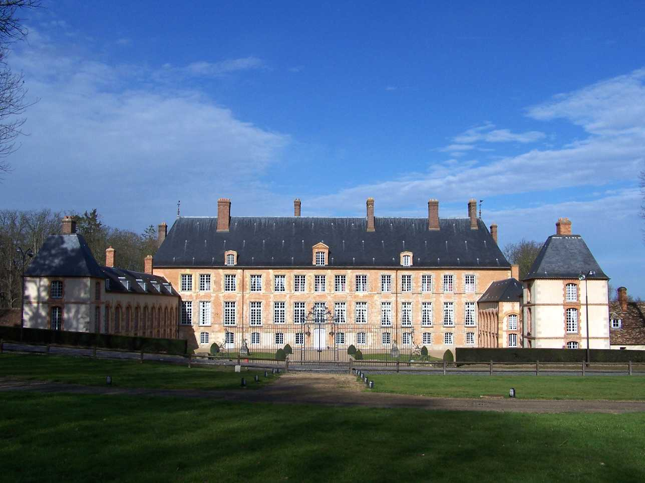 Castle of Les Mesnuls (Yvelines, France)